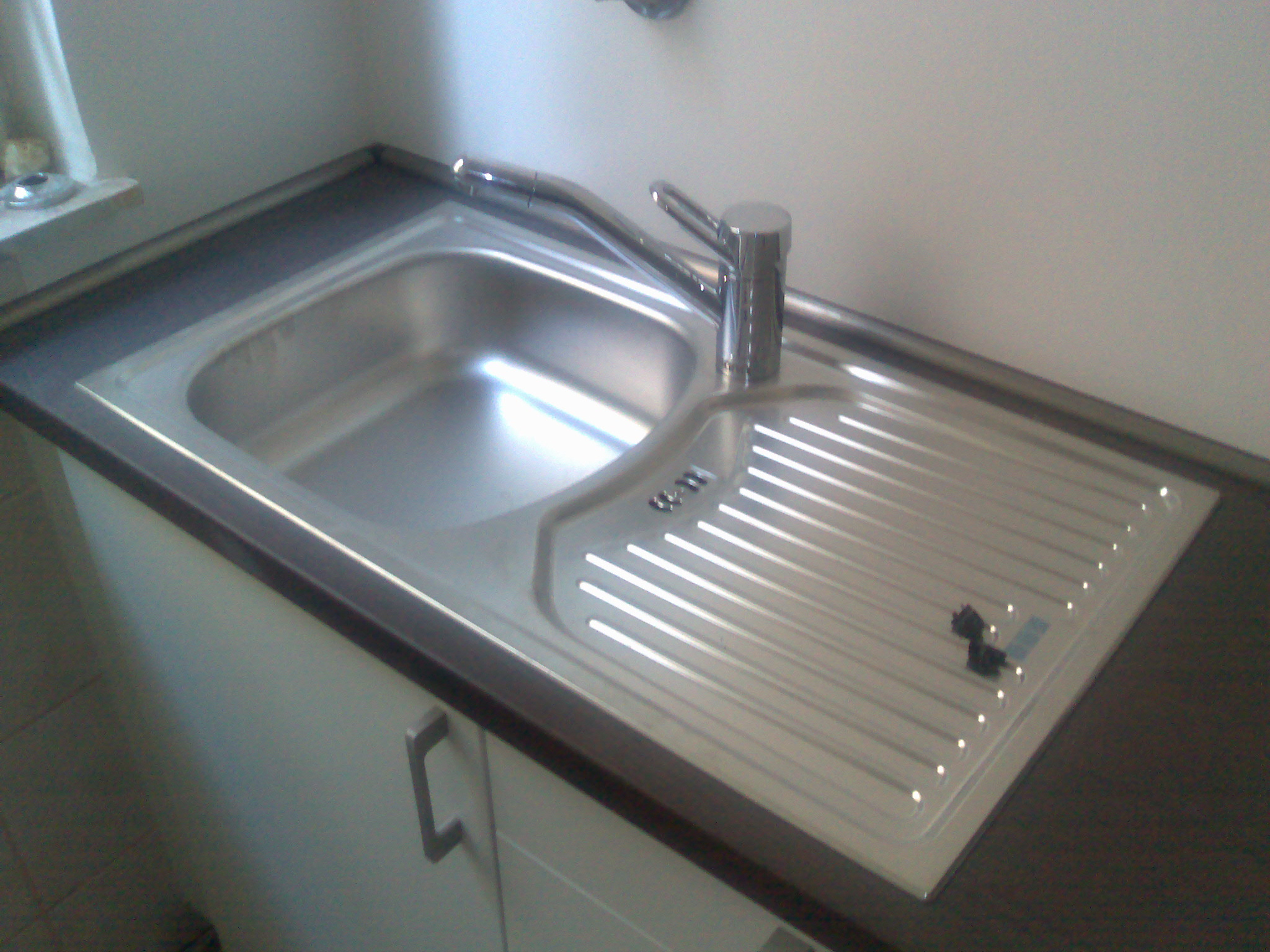 Kitchen sink.